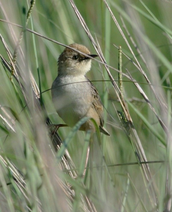 Pale-crowned Cisticola (Cisticola cinnamomeus). Location: Midmar Game Reserve, KwaZulu-Natal, South Africa.